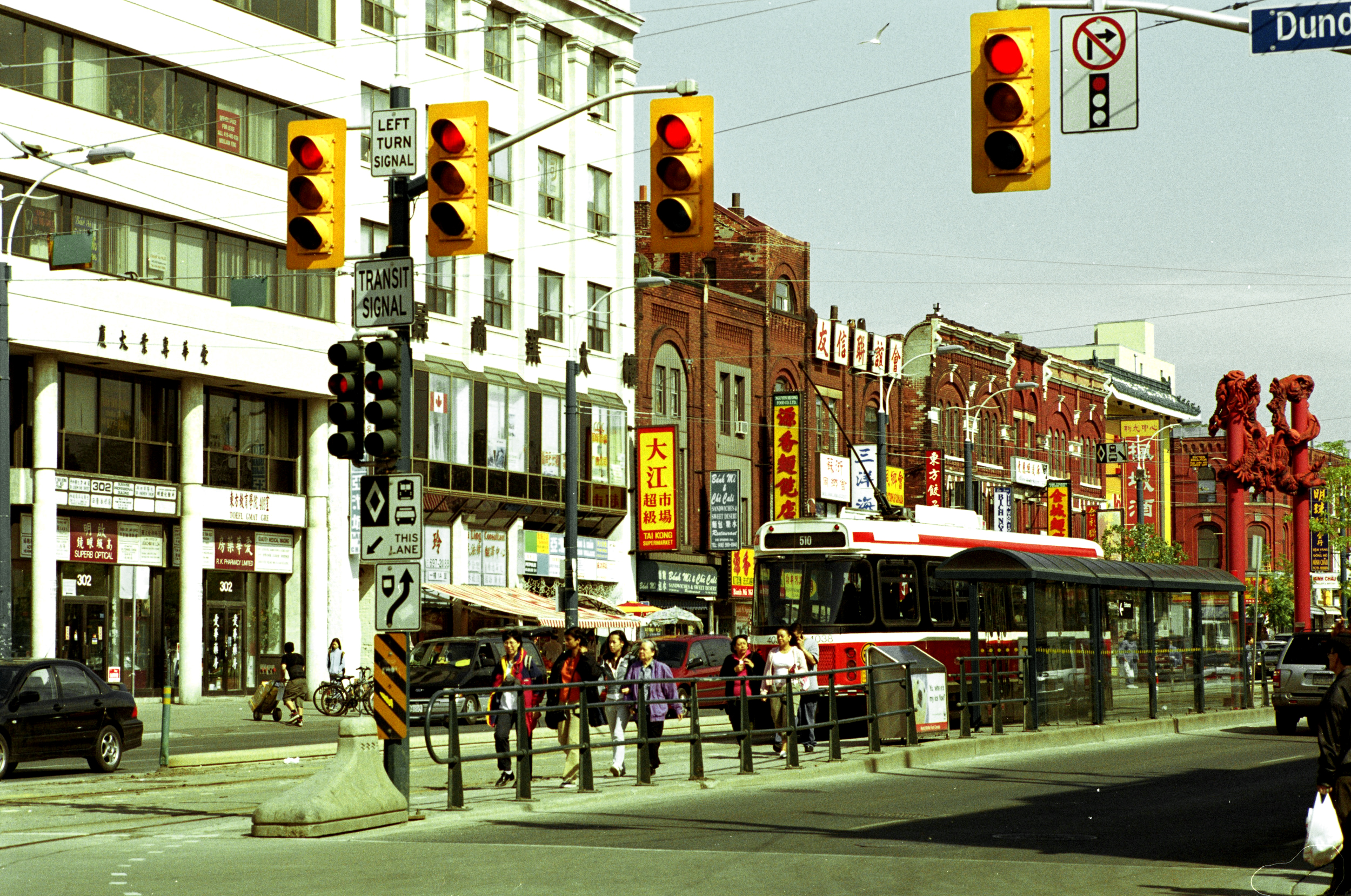 Chinatown at Spadina Street Toronto, north of Dundas Street West